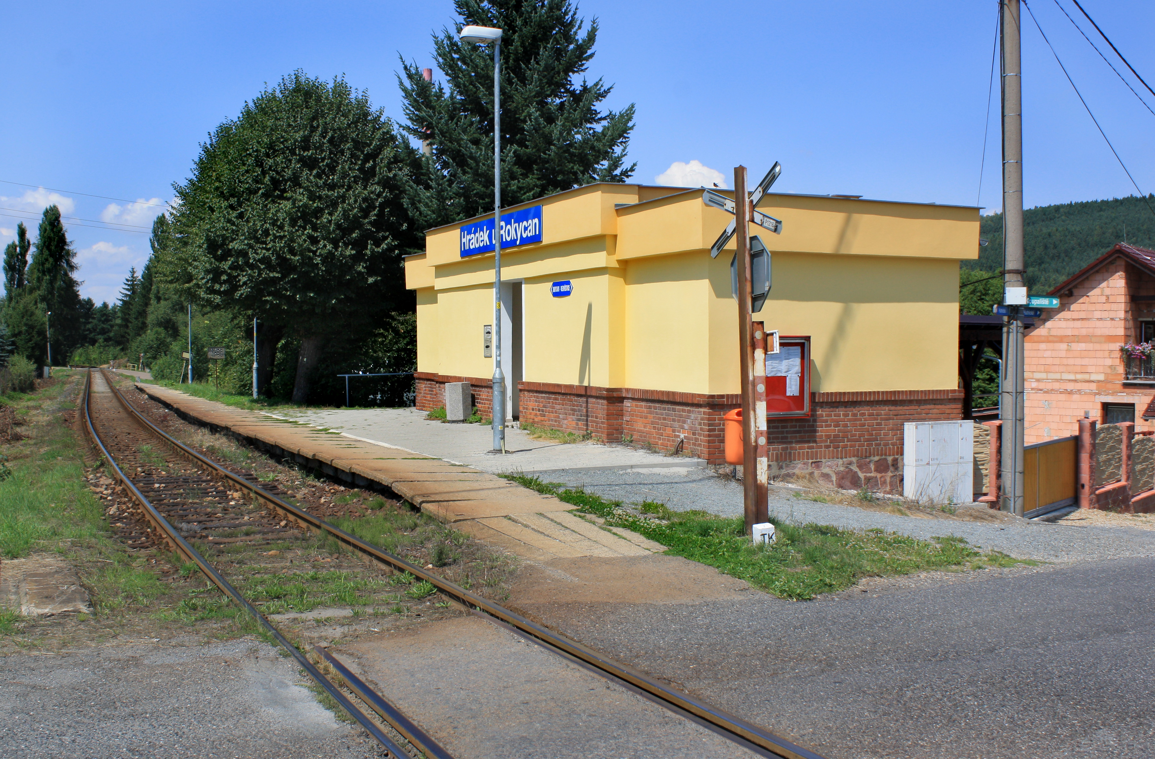 Railway stop in Hrádek, Czech Republic